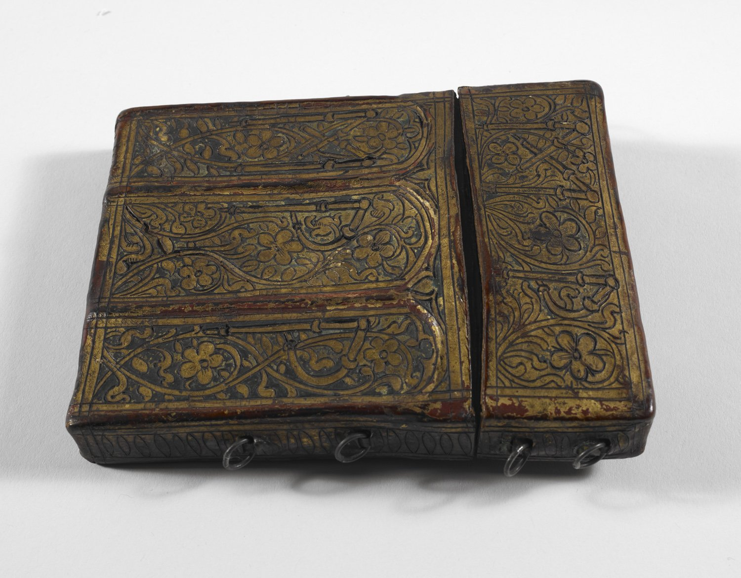 wooden carrying case for Petit Livre d'amour, given by Pierre Sala to his beloved Marguerite Bullioud